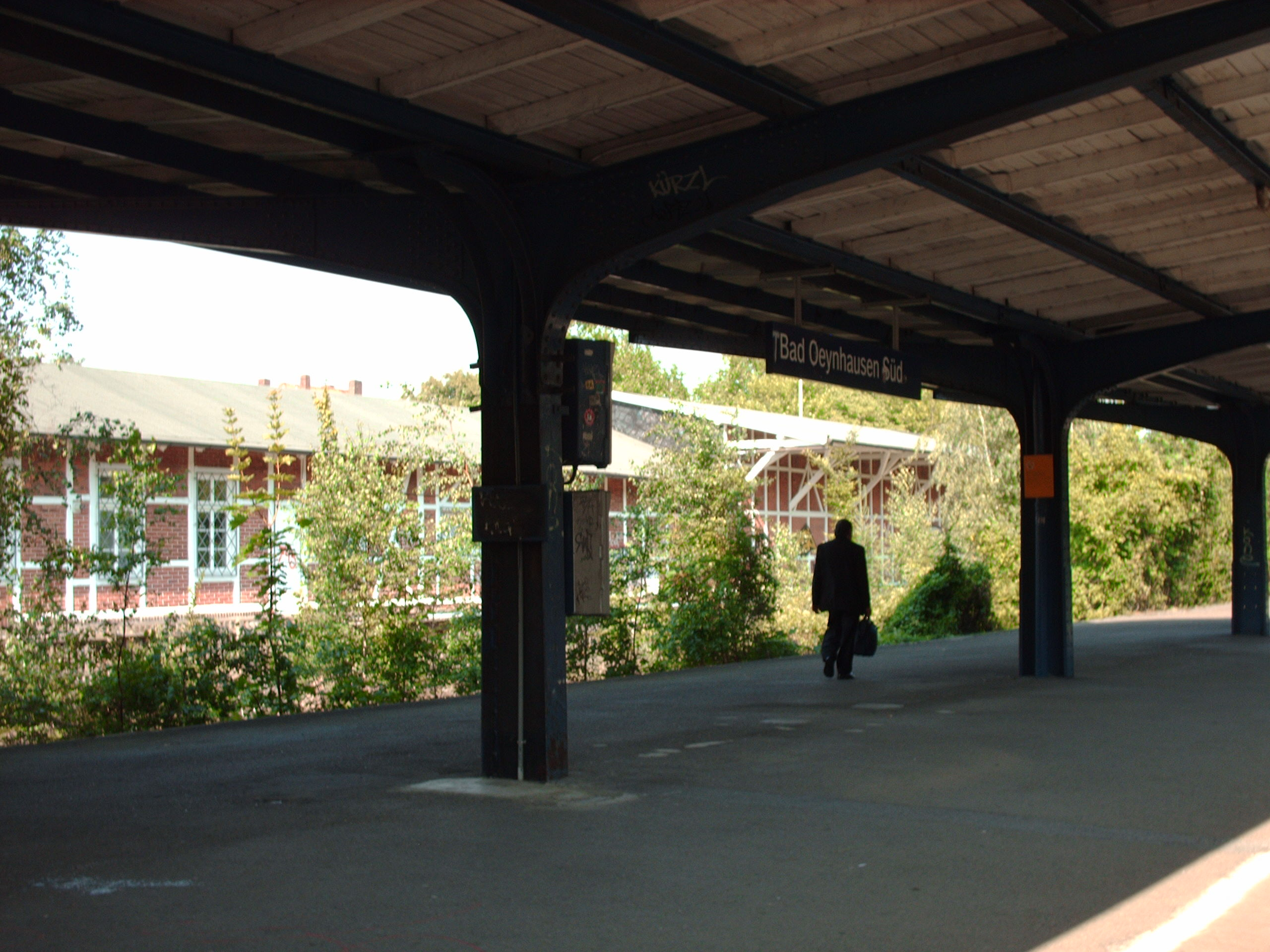 Bad Oeynhausen Süd station, Bad Oeynhausen, Germany check usage